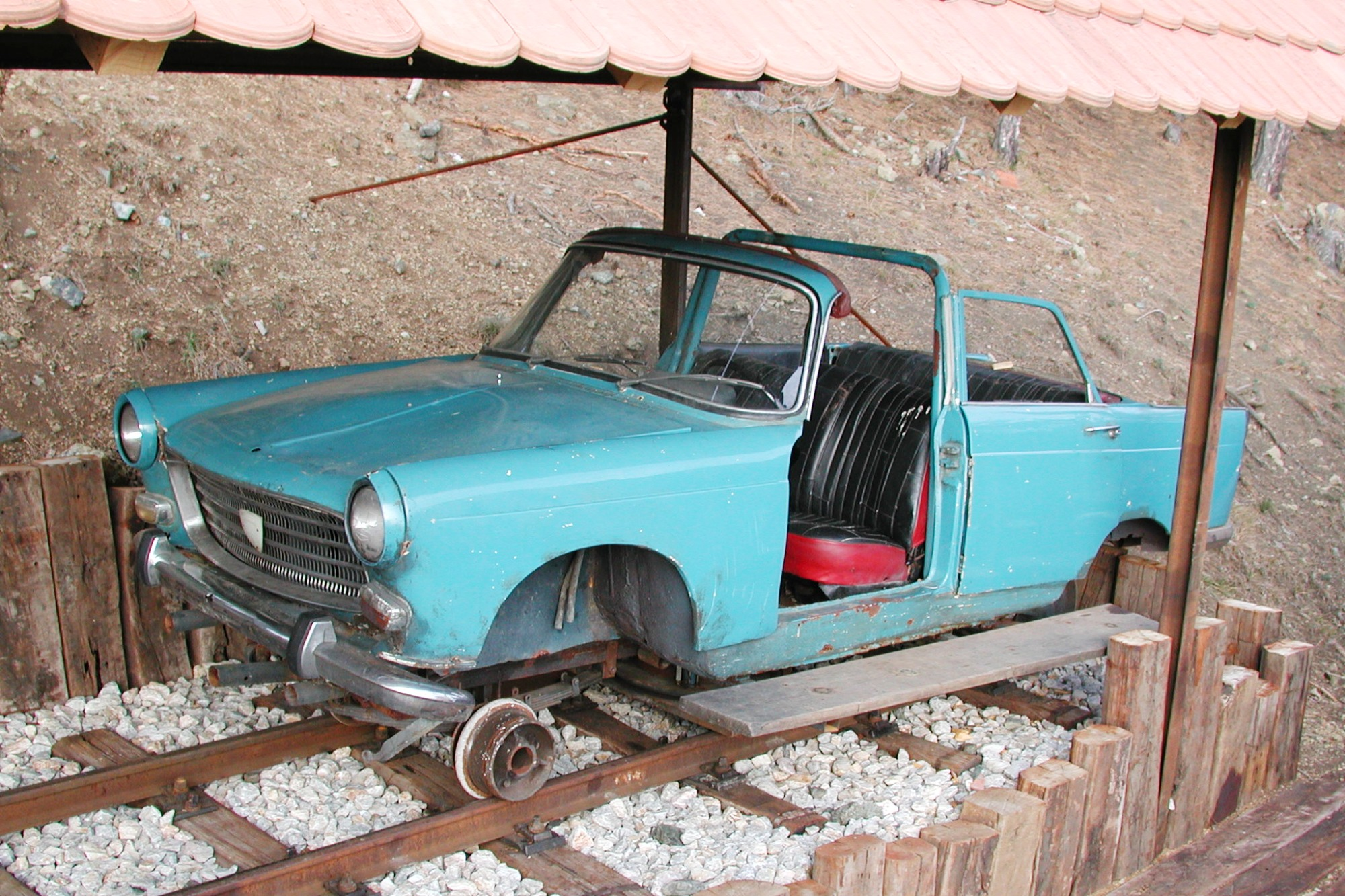 The railway car from Emir Kusturica's movie "Life is a Miracle" on display at Golubici station on the Šarganska osmica heritage railway.